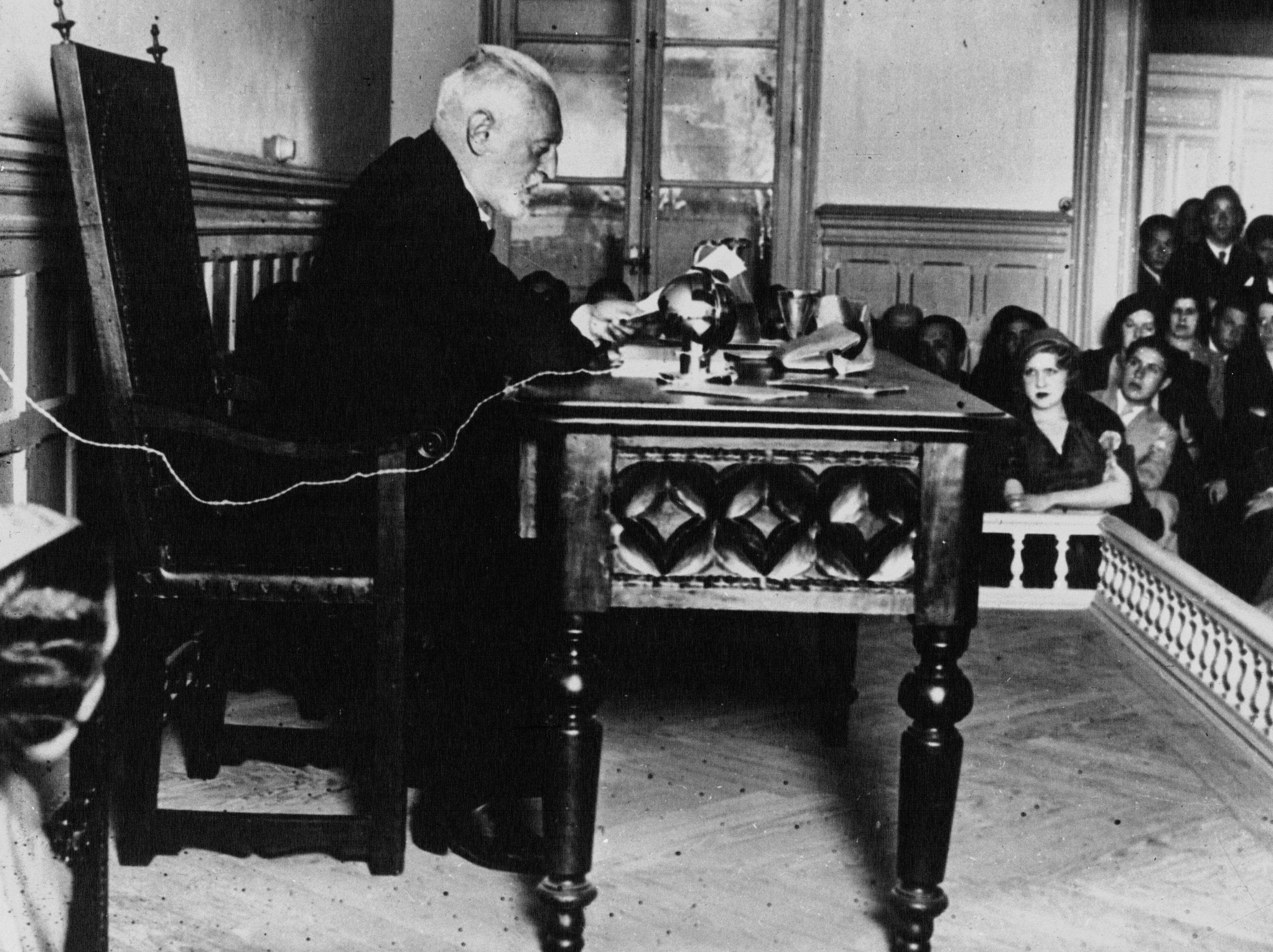 Miguel de Unamuno during a conference about Catalonia